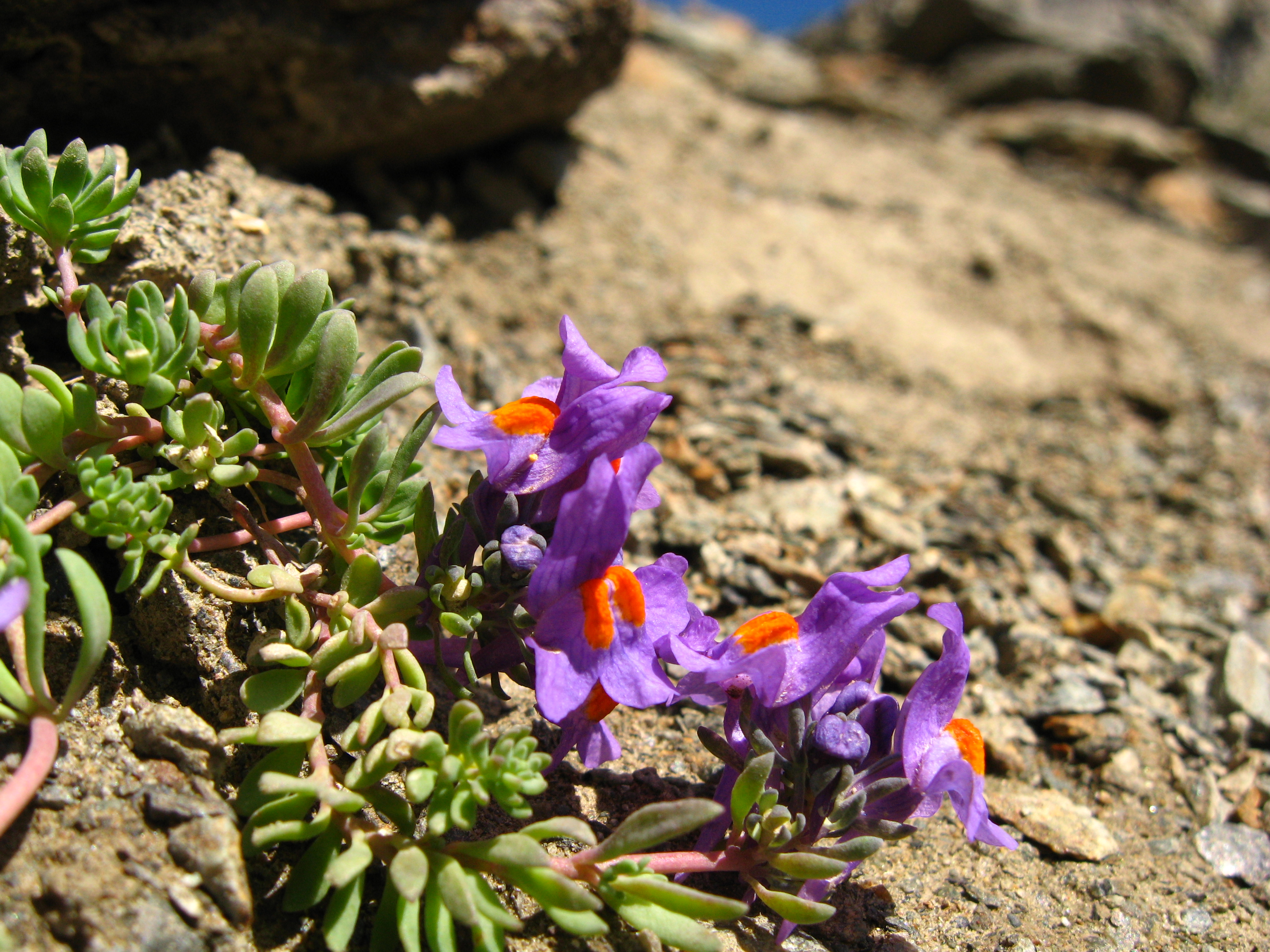 Alpine Toadflax on path below Refuge du Petit Mont Blanc, Val Veny, Italy.